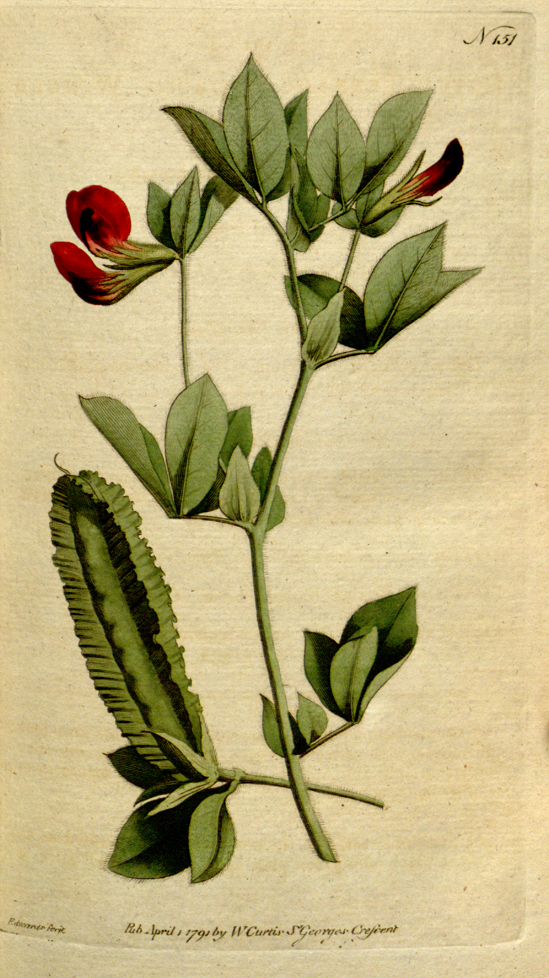 This is a plate from The Botanical Magazine, Volume 5.